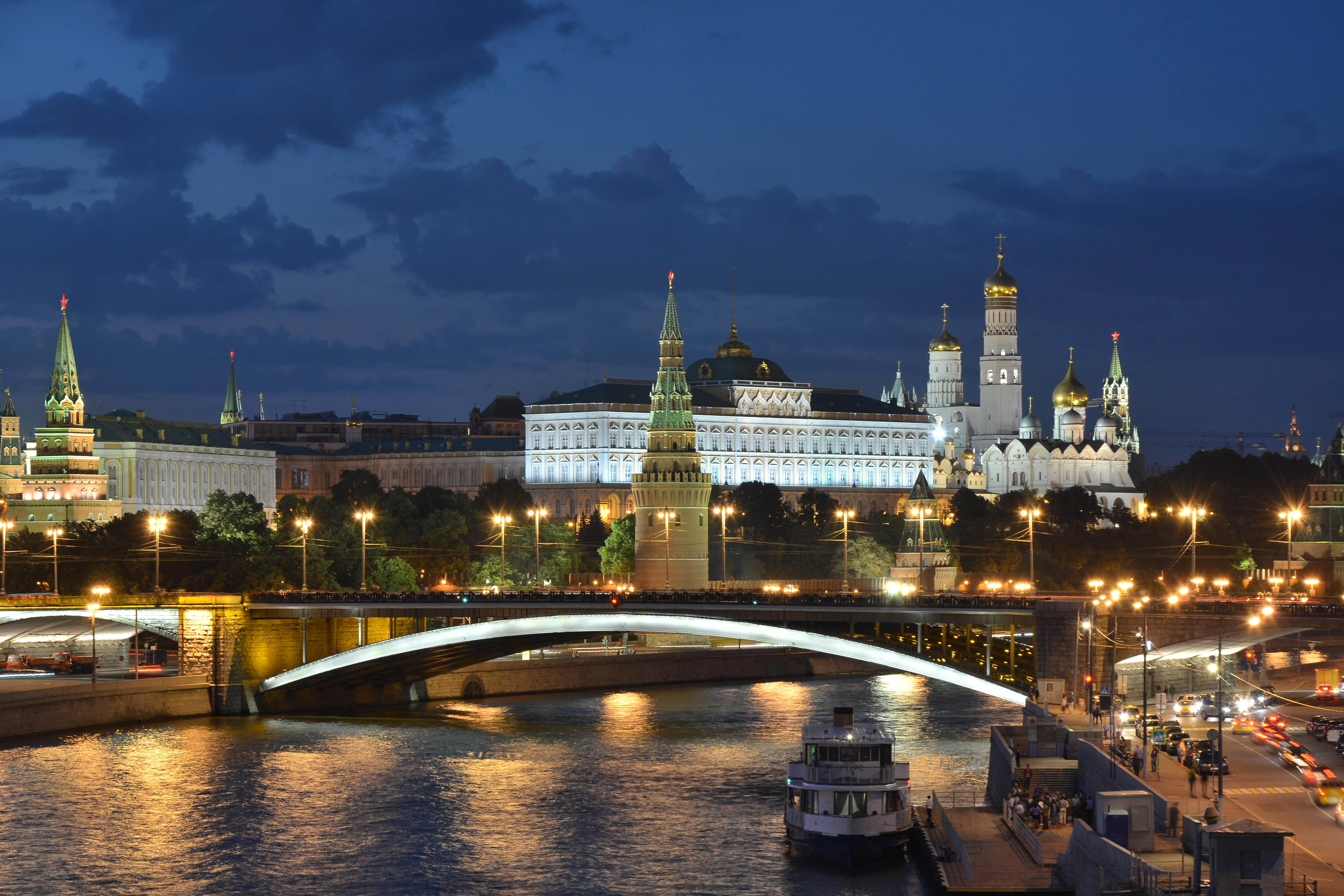 Moscow Kremlin and Bolshoy Kamenny Bridge in the late evening.